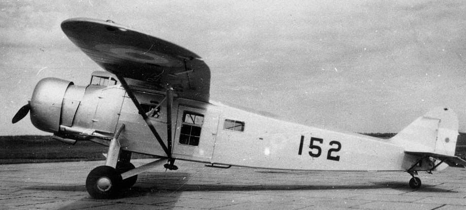 Catalog #: 00066426 Manufacturer: Fairchild Designation: 82B Official Nickname: Notes: Canada – Fuerza Aerea Argentina Repository: San Diego Air and Space Museum Archive